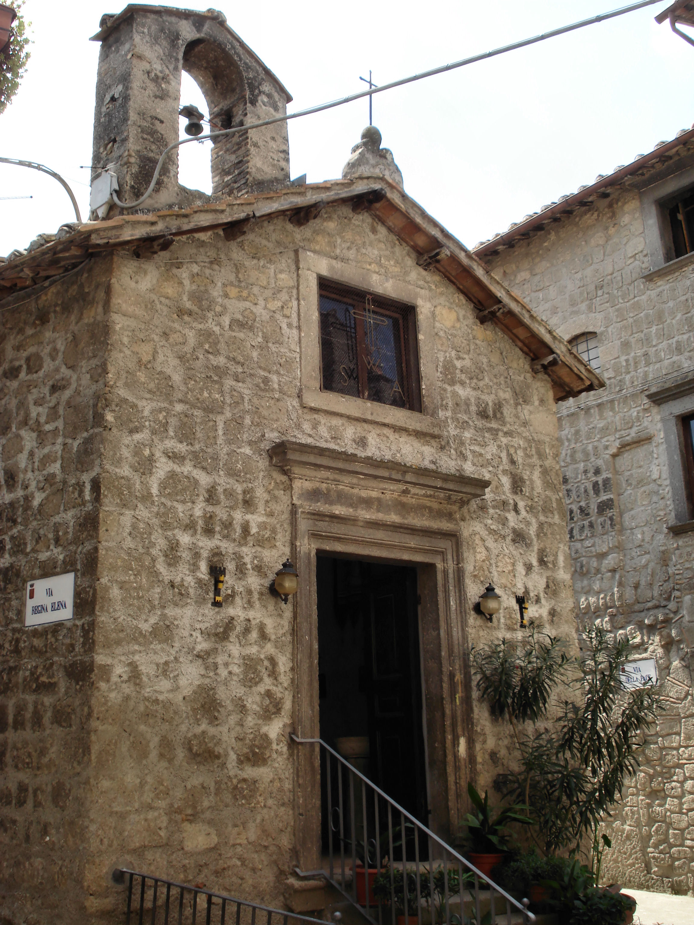 Church of San Anselmo in Bomarzo, Photo by Cosmin Latan